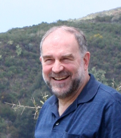 Gaston Gonnet, Uruguayan computer scientist based in Switzerland